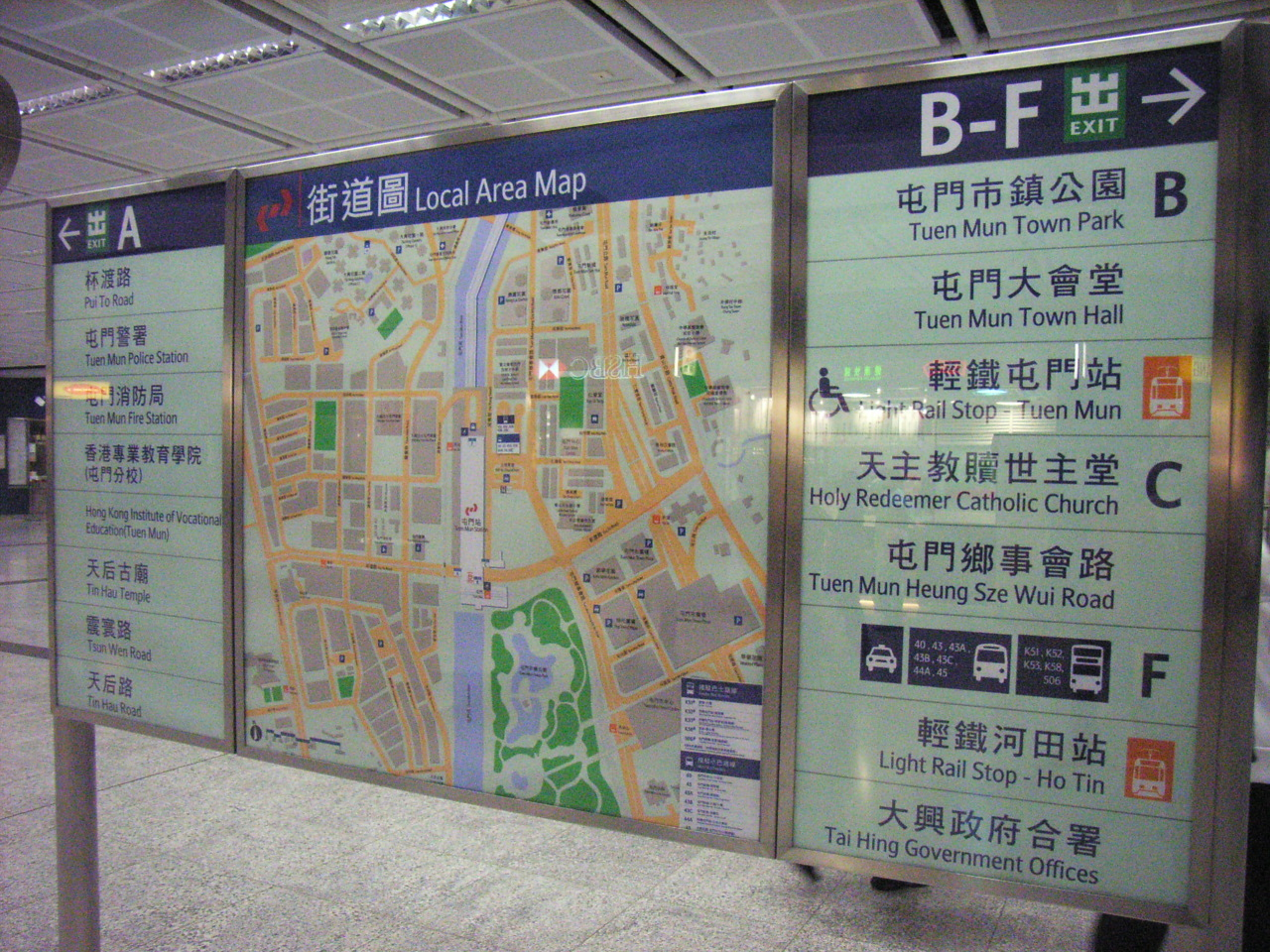 九廣西鐵屯門站位於香港新界屯門區zh:杯渡路與zh:屯門河交界。 HK KCRC Tuen Mun Station, Tuen Mun, Hong Kong. (Photo created by User:TUmuMATo)。